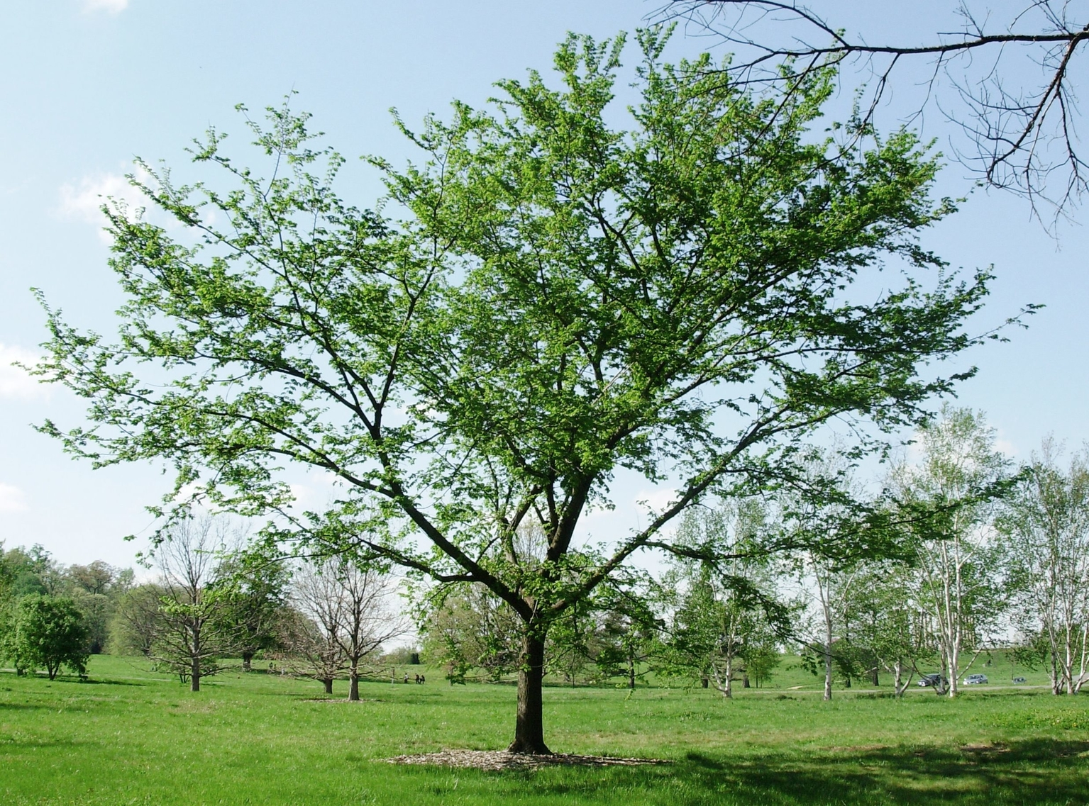 'Delaware' is a cultivar of the American Elm, raised by the USDA.